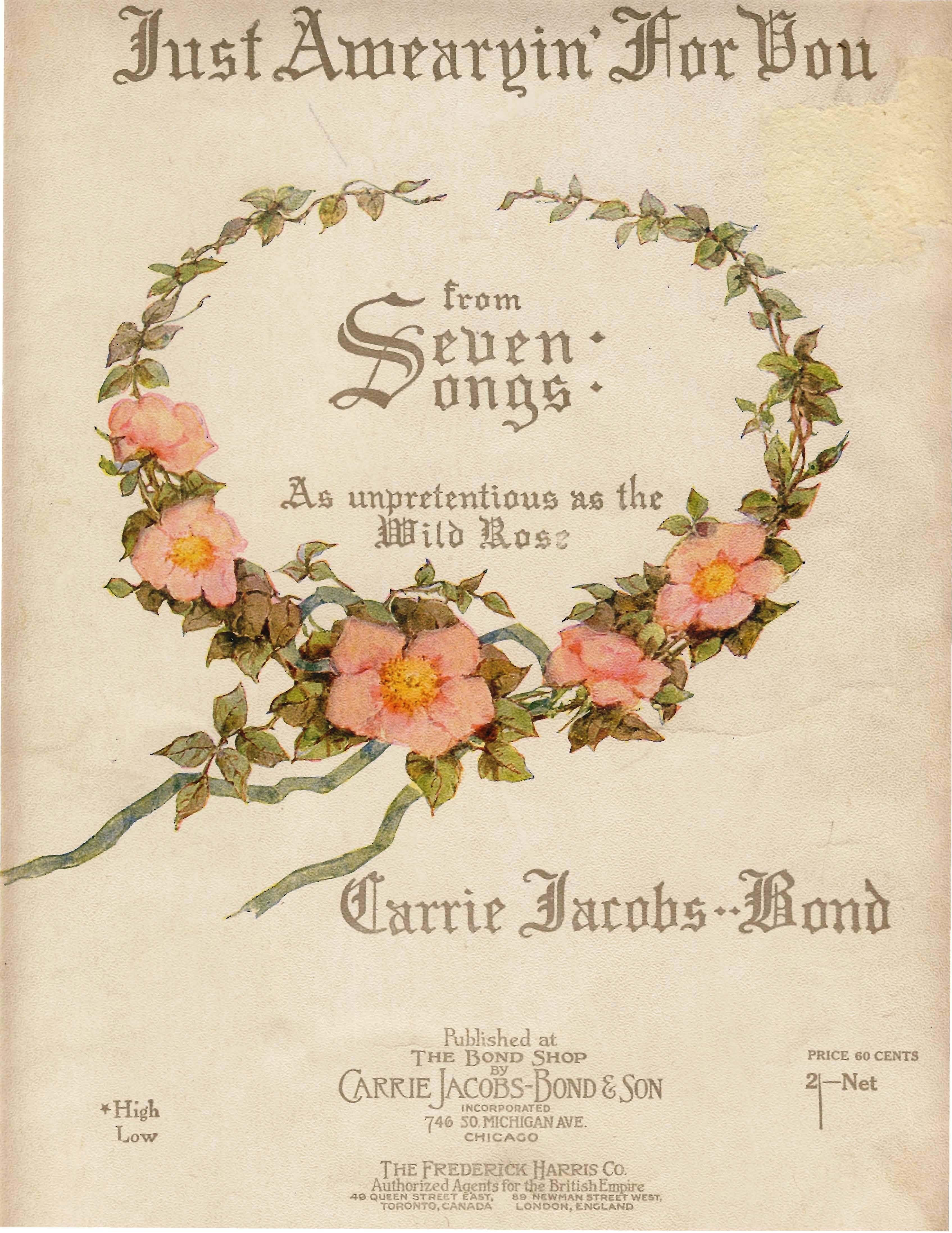 Front cover of "Just Awearyin' for You" (published 1901), lyrics by Frank Lebby Stanton & music by Carrie Jacobs-Bond